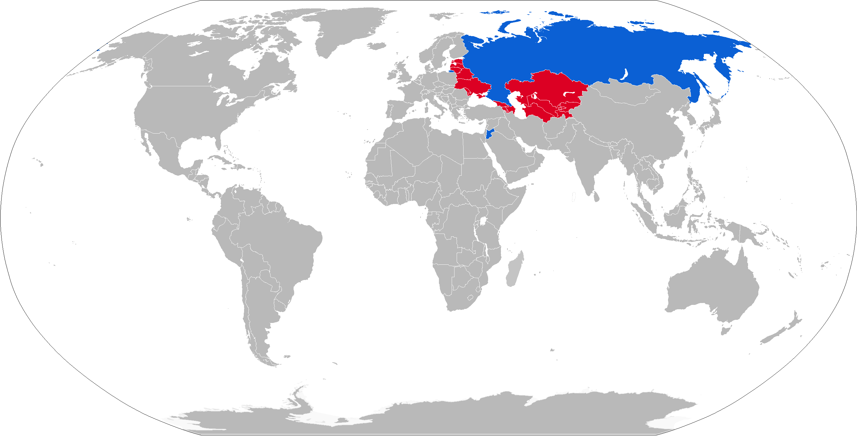 Map with RPG-27 operators in blue and former operators in red